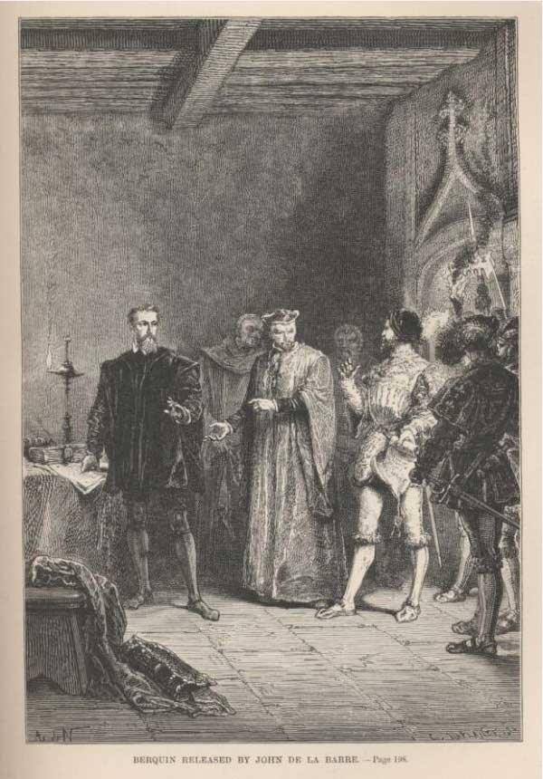 An image of the French martyr Louis de Berquin (left) released by John de la Barre from one of several imprisonments.